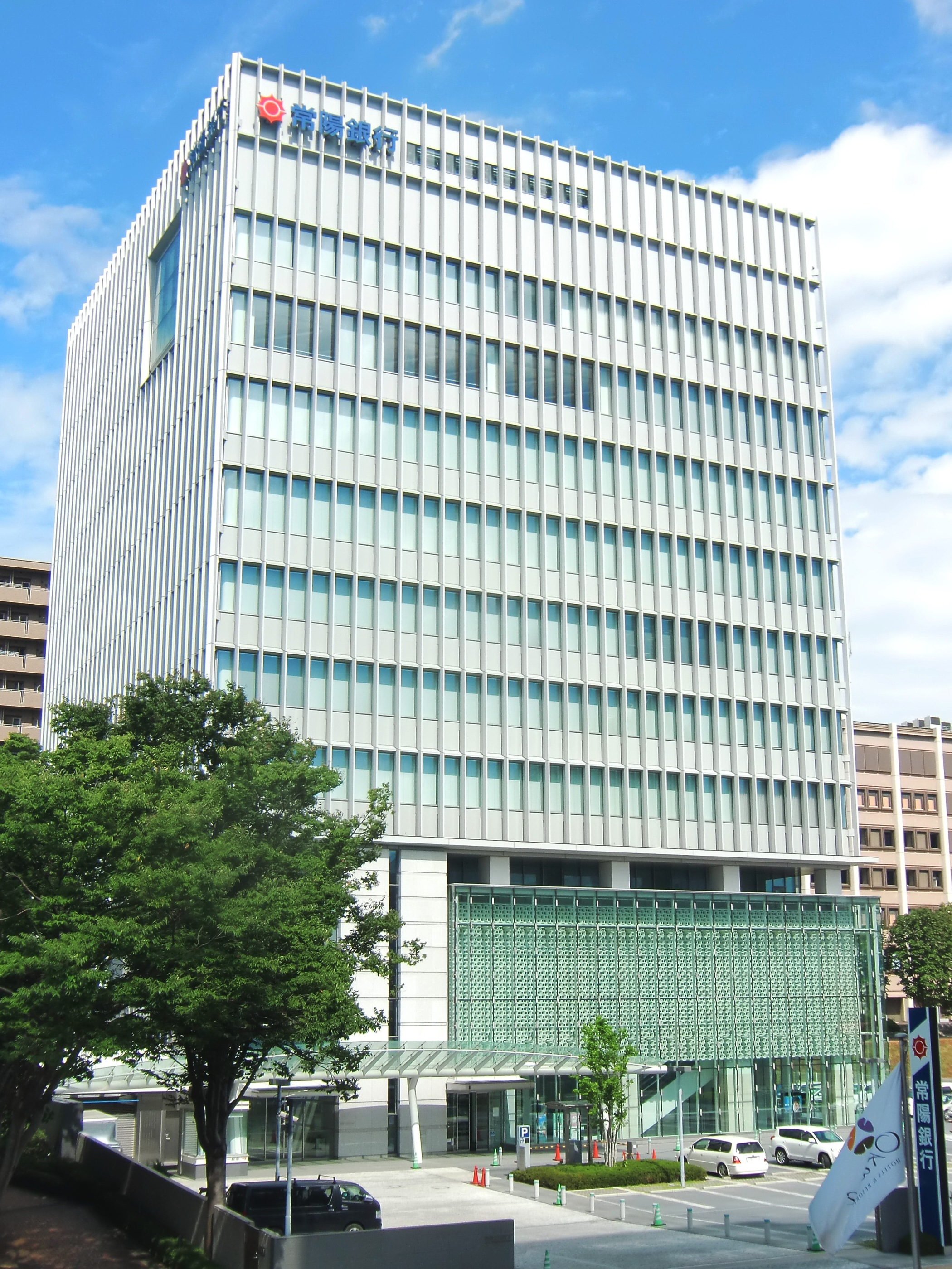 Joyo bank kenkyūgakuentoshi branchi in 1-chōme, Azuma, Tsukuba city, Ibaraki prefecture, Japan.